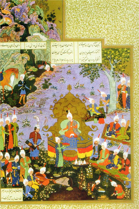 Illumination probably from the Shahnameh of Shah Tahmasp